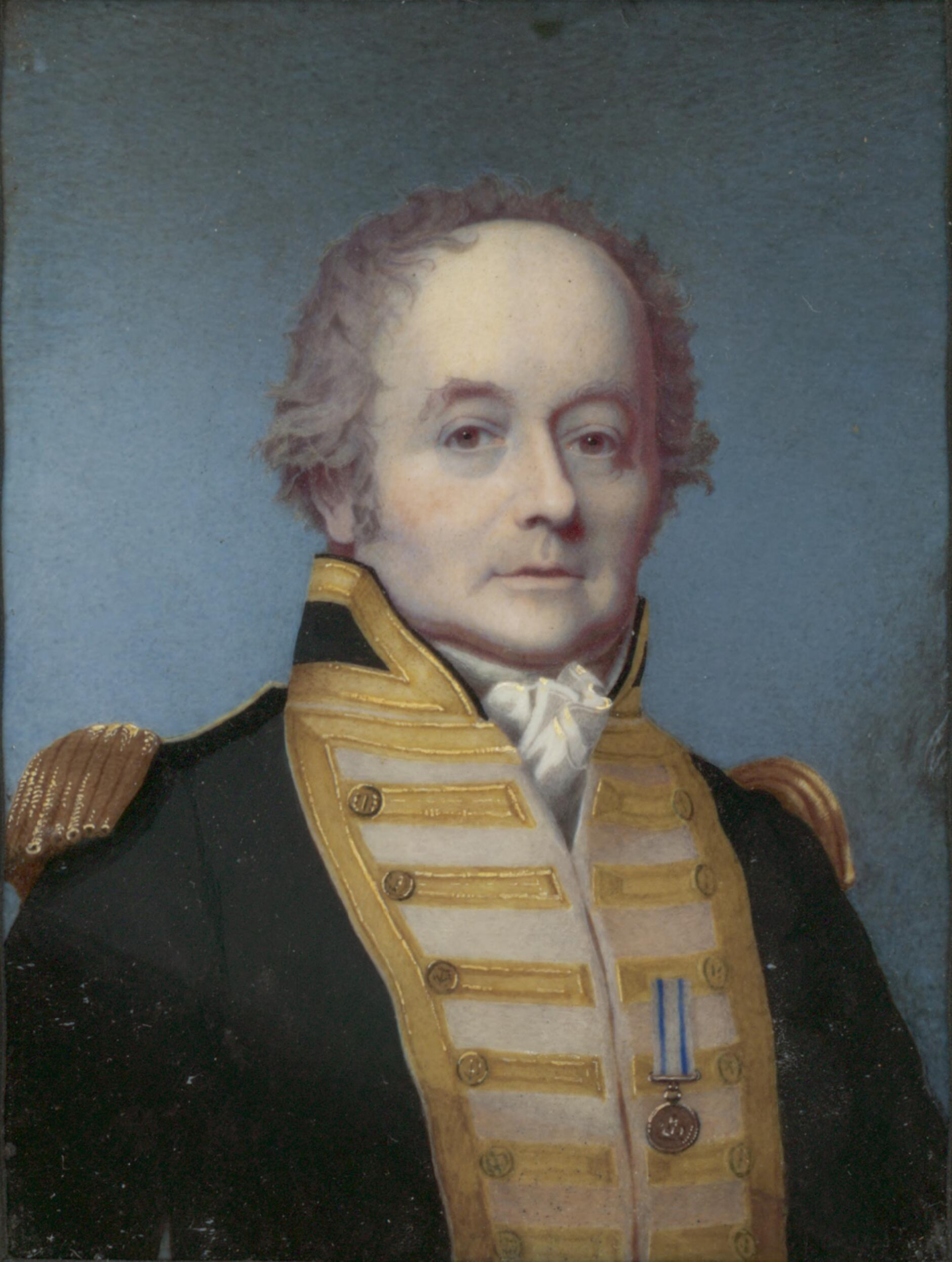 Portrait of Rear Admiral William Bligh by Alexander Huey, en:1814